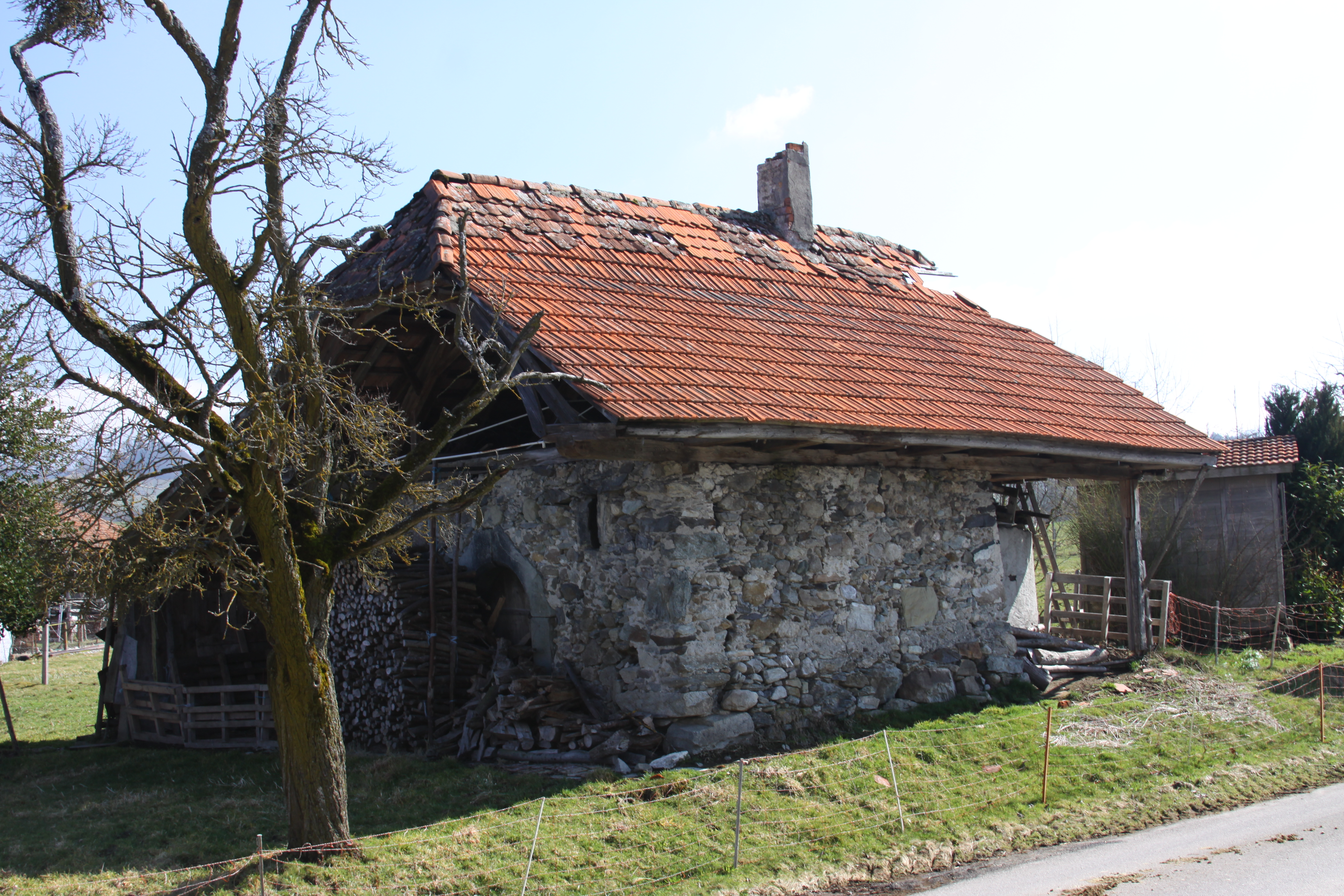 Bakehouse, Geretach 2b, St. Ursen